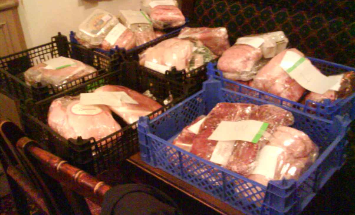 Meat prizes on display, Duke of Monmouth pub, Oxford, UK